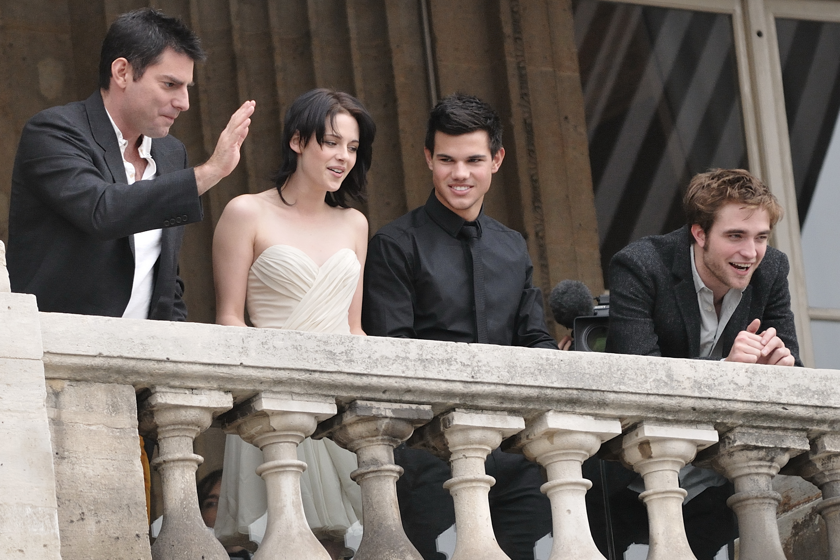 Director Chris Weitz (left), actress Kristen Stewart, actor Taylor Lautner and actor Robert Pattinson (right) attending the Twilight Saga Film New Moon (Twilight Chapitre 2 Tentation) Photocall at the Crillon Hotel in Paris, France on November 10, 2009.